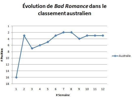 Evolution of Bad Romance in Australia